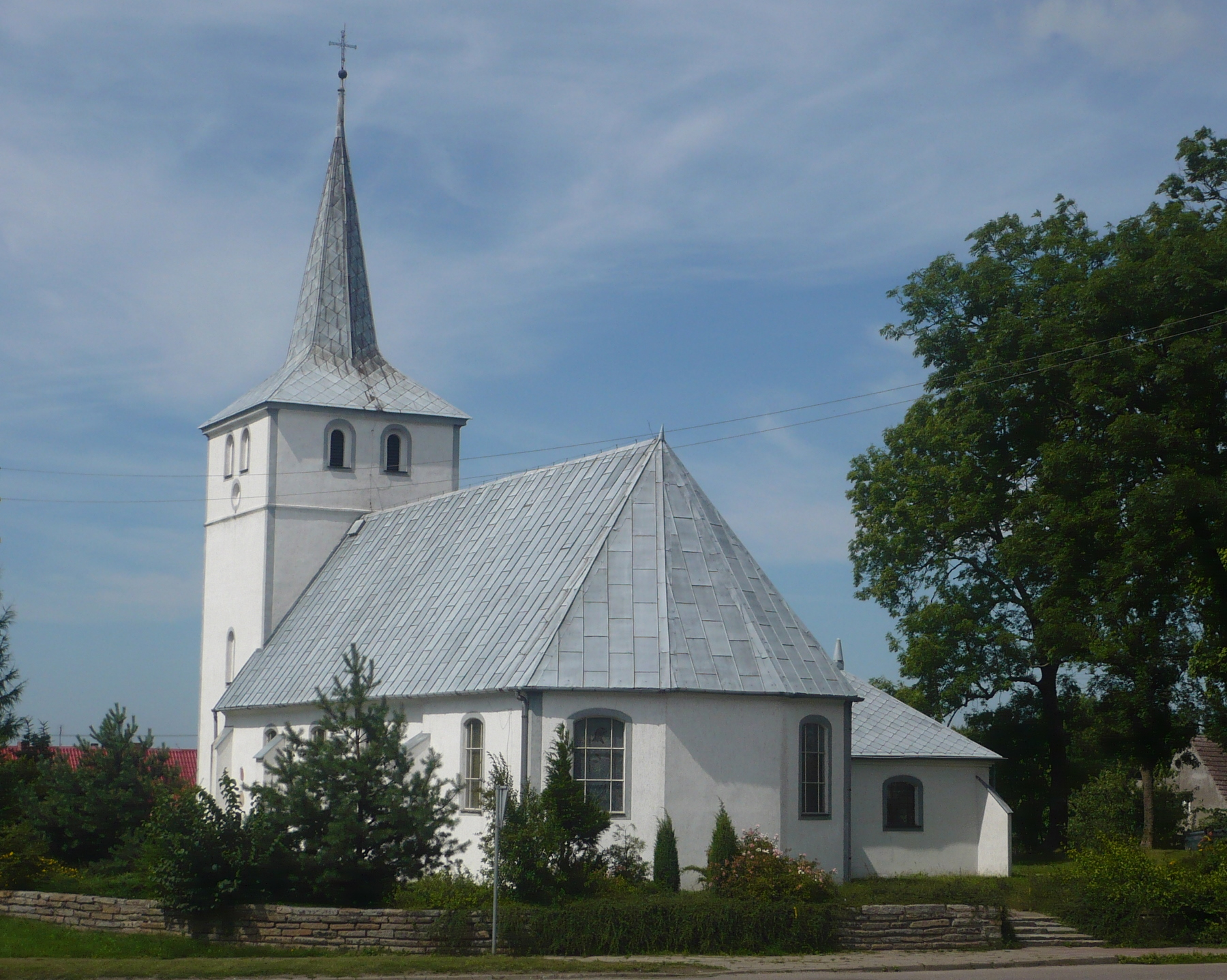 Christ the King Roman Catholic Church in Biesiekierz, Poland